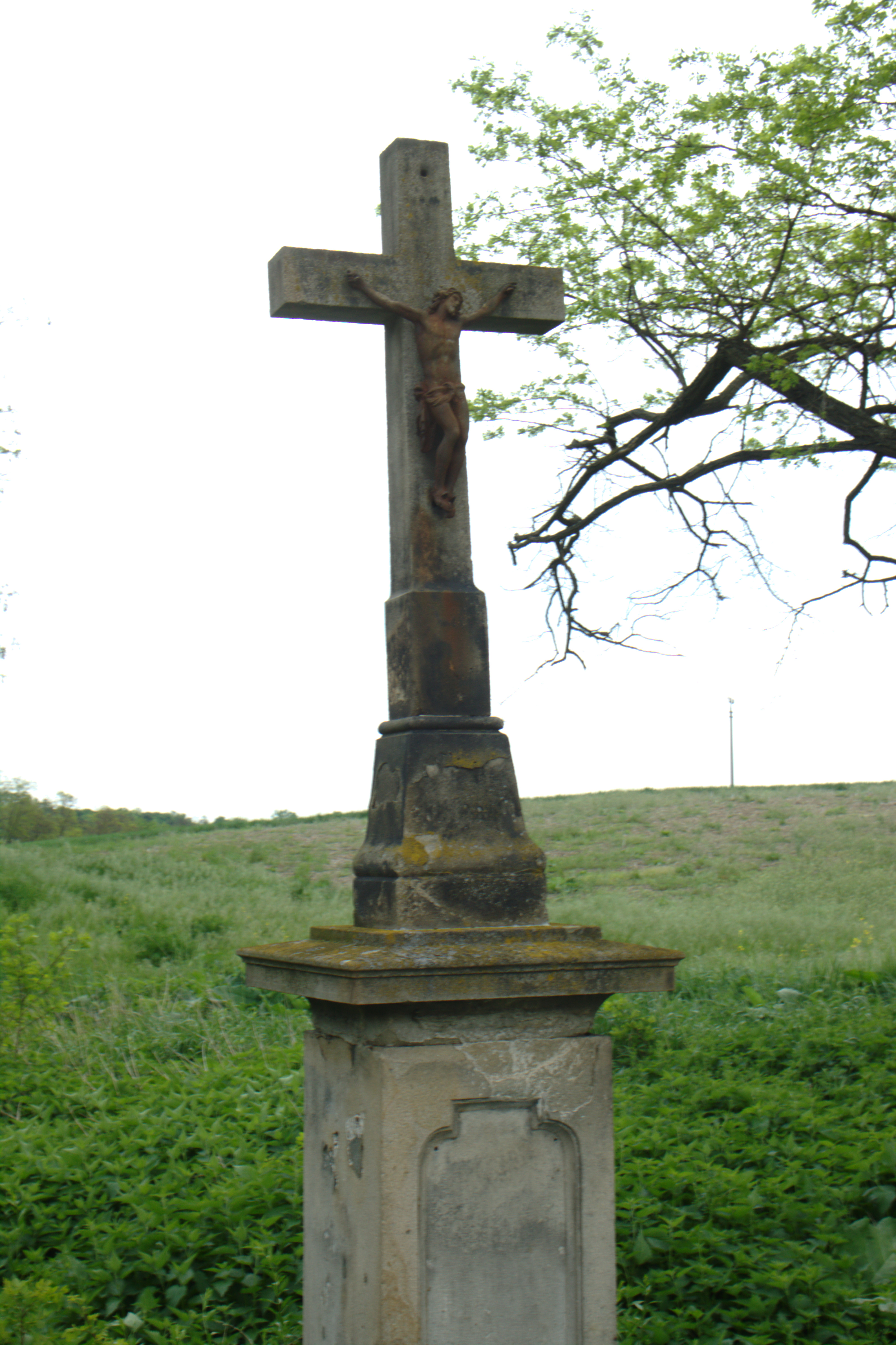 A cross north from the village of Trnové Pole, South Moravian Region, CZ